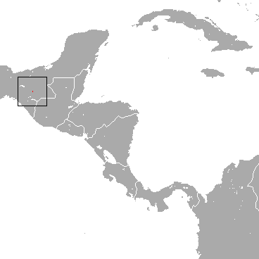 San Cristobal Shrew (Sorex stizodon) range